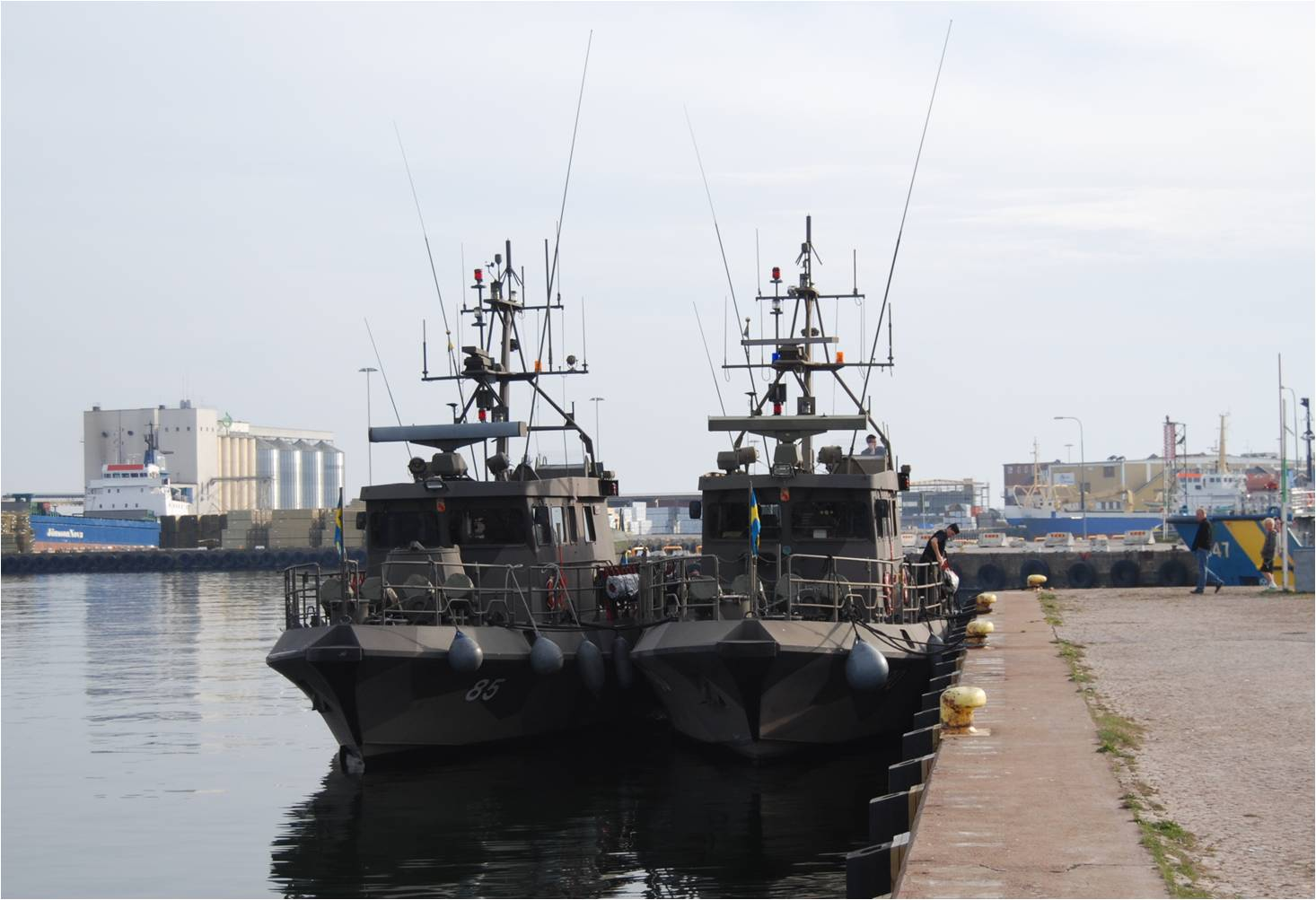 The ships HMS Trygg (85) and HMS Ärlig (90) of the Tapper class patrol boats, Swedish Navy.